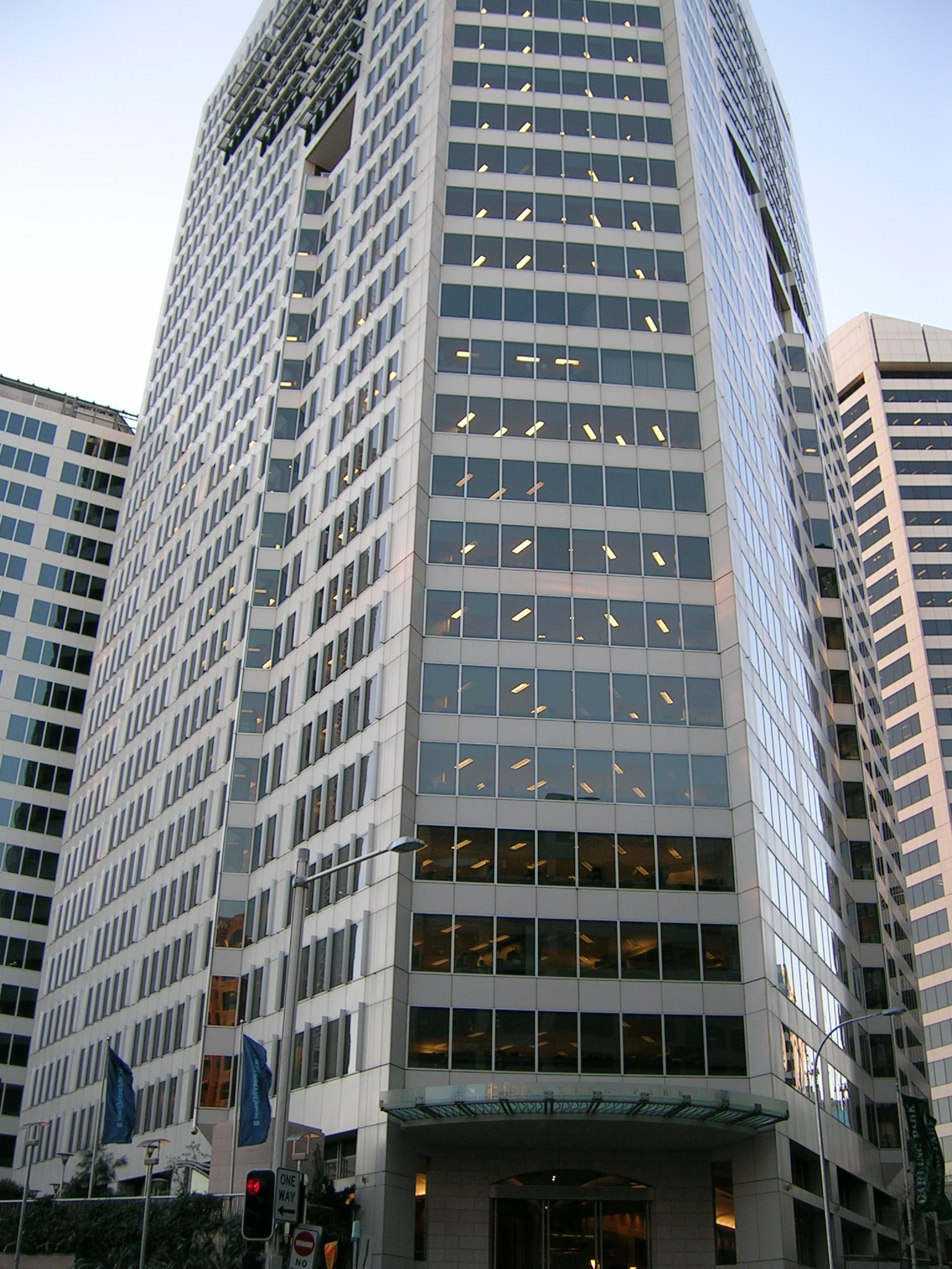 The PricewaterhouseCoopers building in Sydney, Australia.